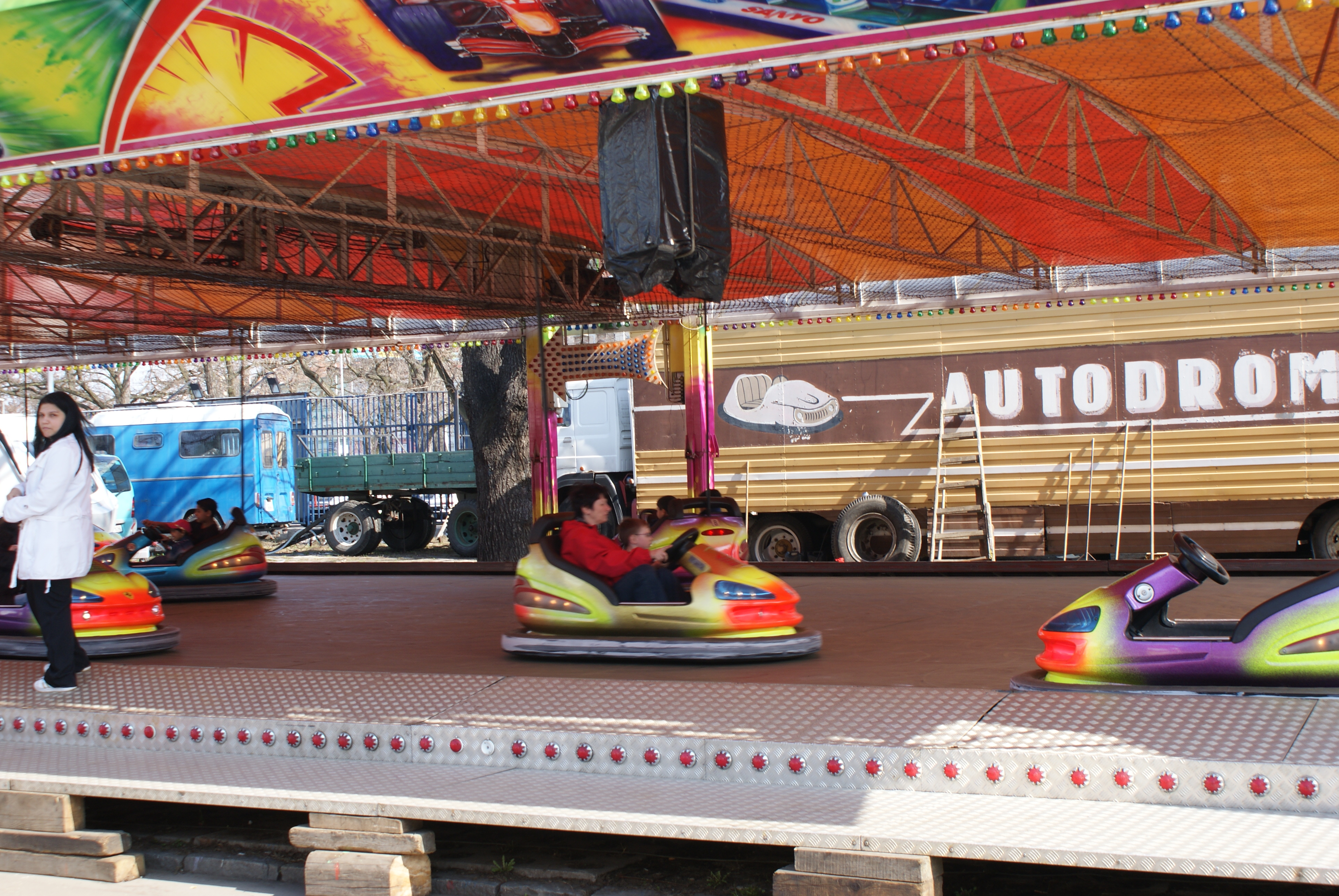 Autodrome in the Lunapark, Prague, Czech Republic